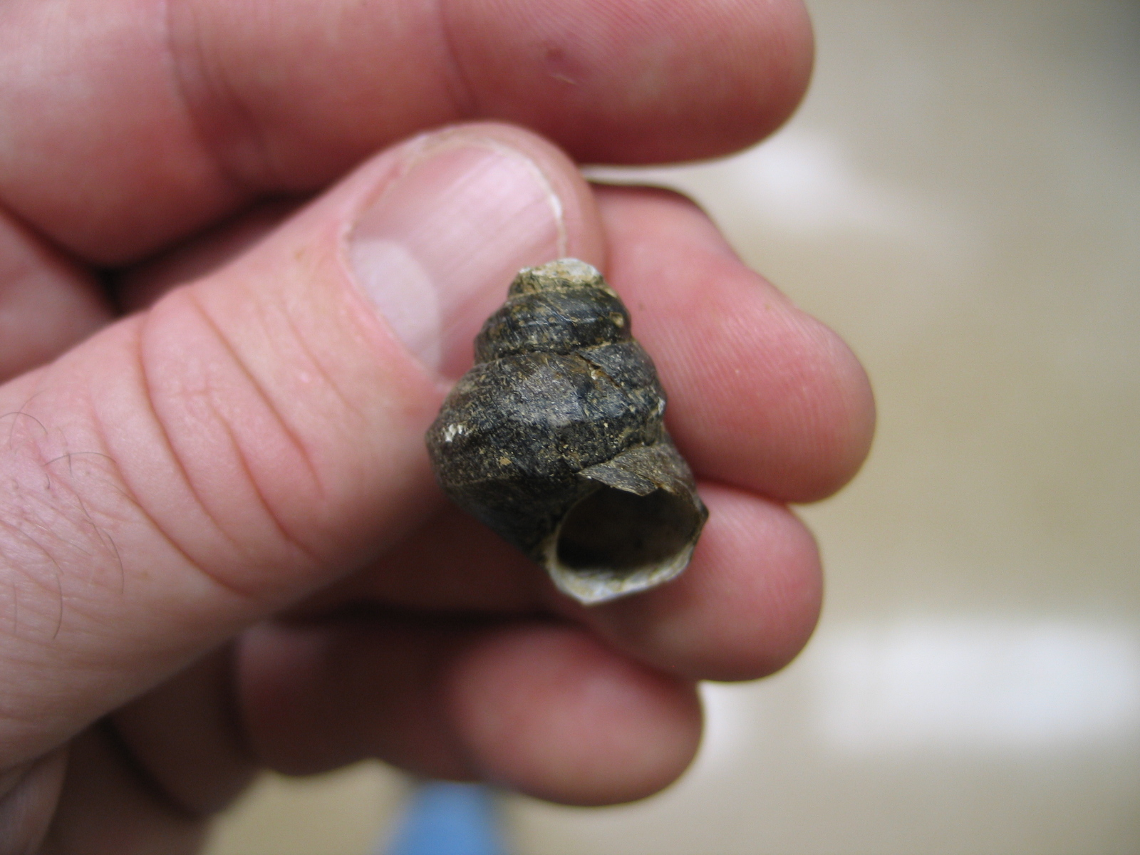 Photo of apertural view of Tulotoma magnifica in human hand.